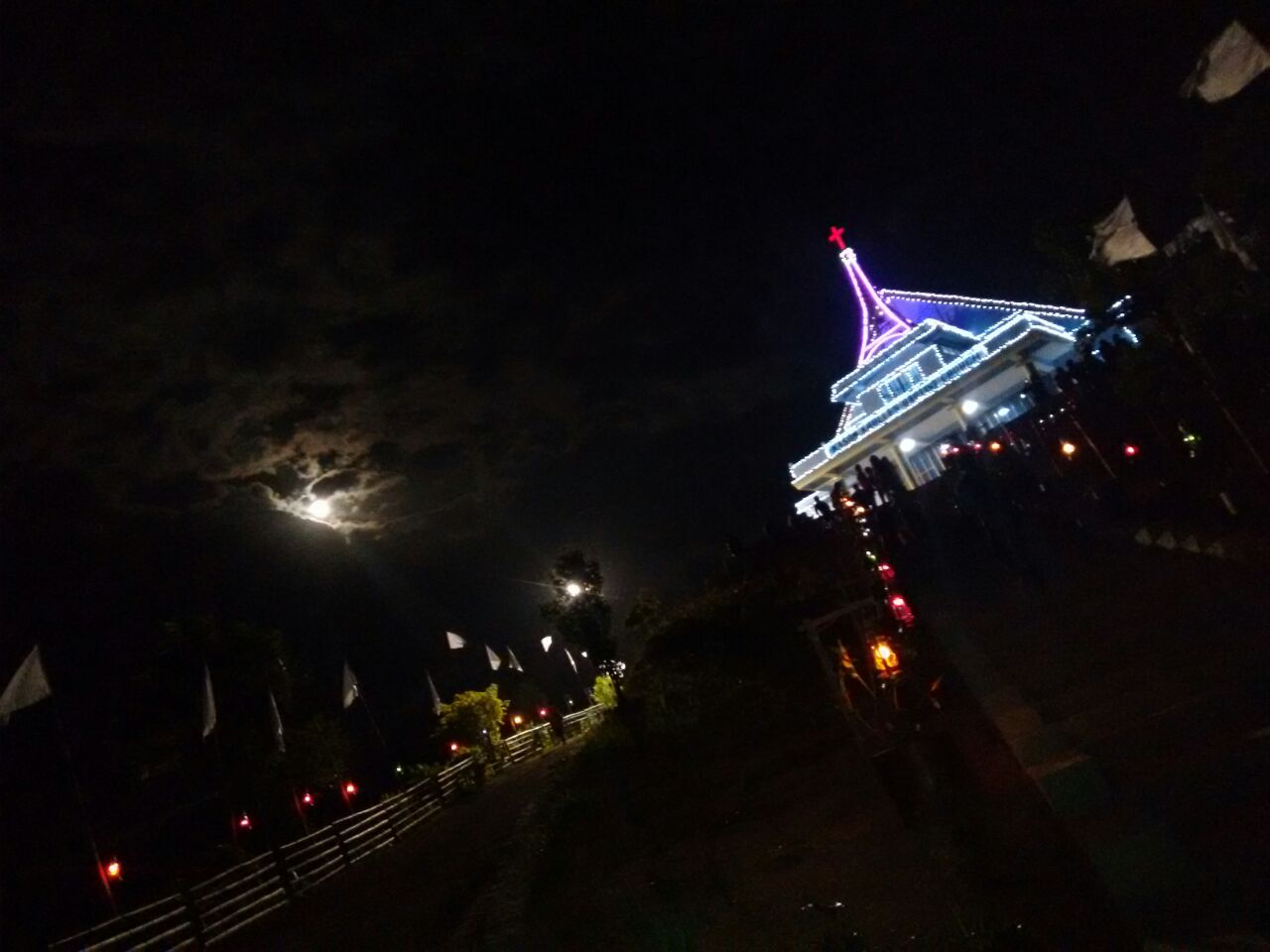 View of the village's church